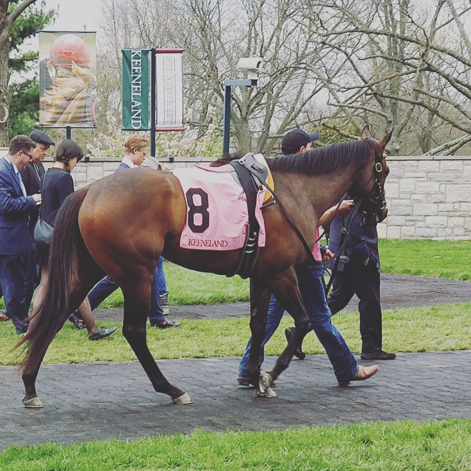 Lady Aurelia in the paddock before placing 2nd in the Giant's Causeway at Keeneland. Feel free to use this photo however you like, just attribute . Thanks!